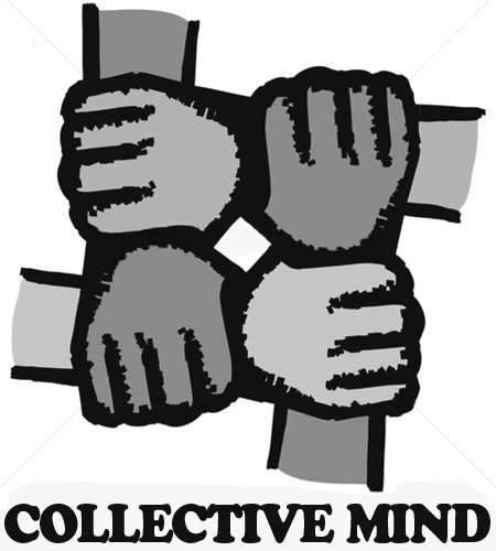 4 hands